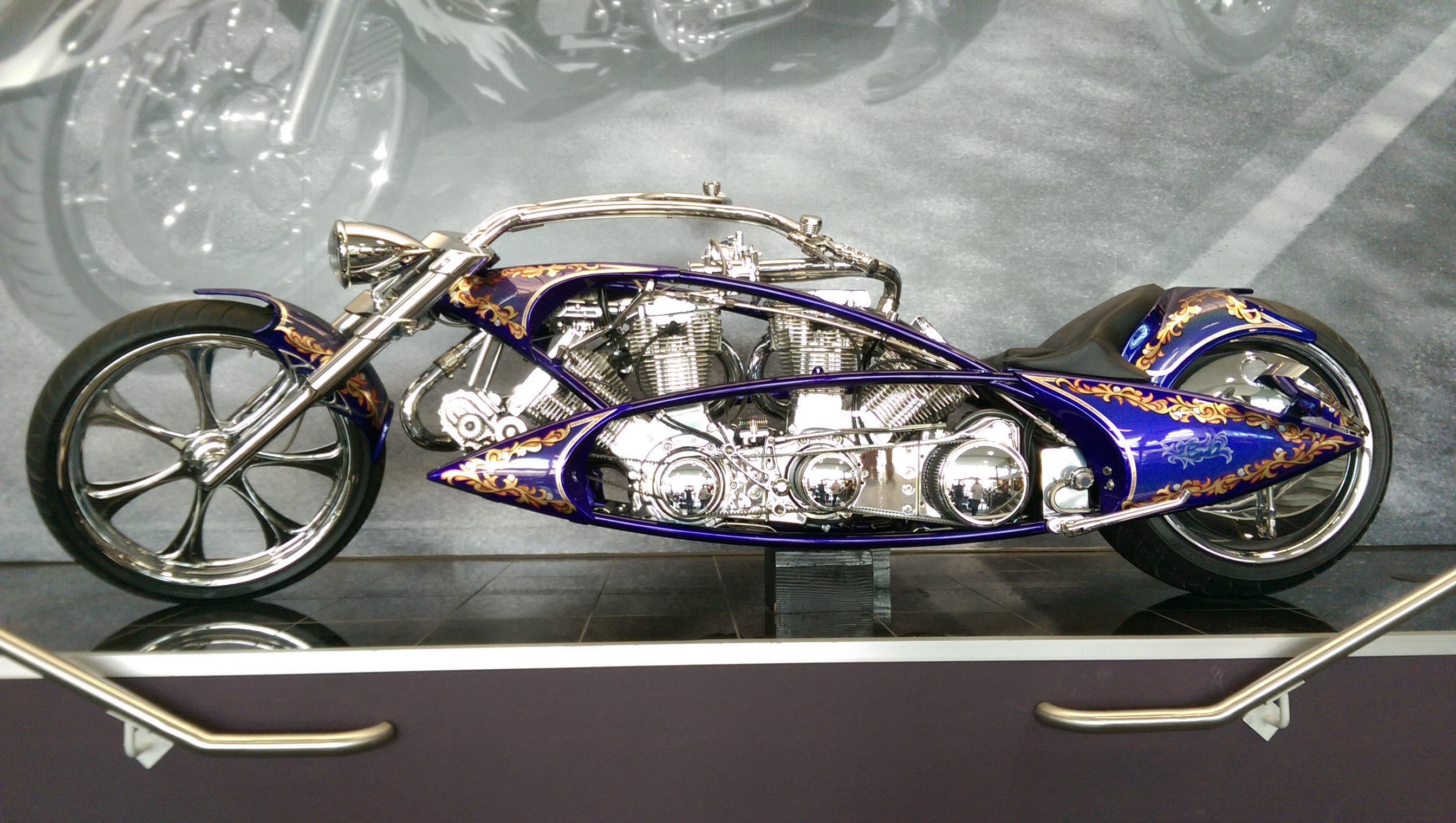 A custom motorcycle featuring two engines, designed by Arlen Ness. Photo by Jim Heaphy.